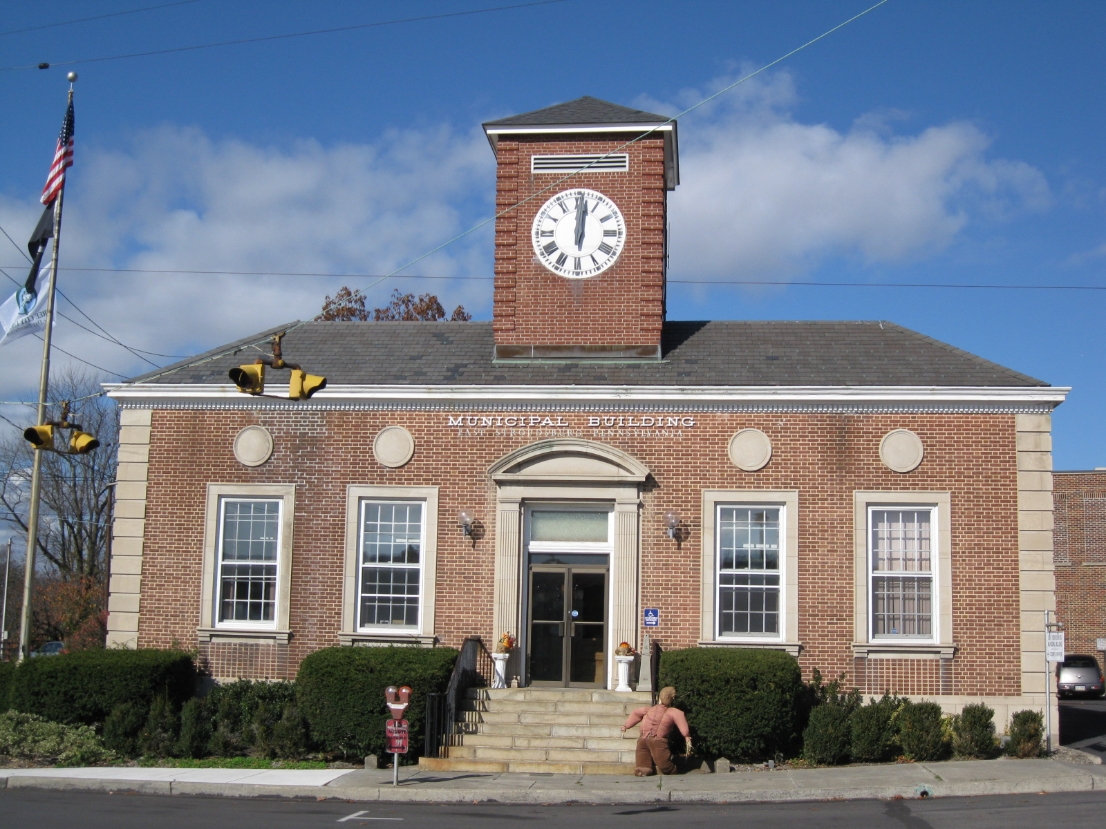 The Municipal Building in East Stroudsburg, Pennsylvania